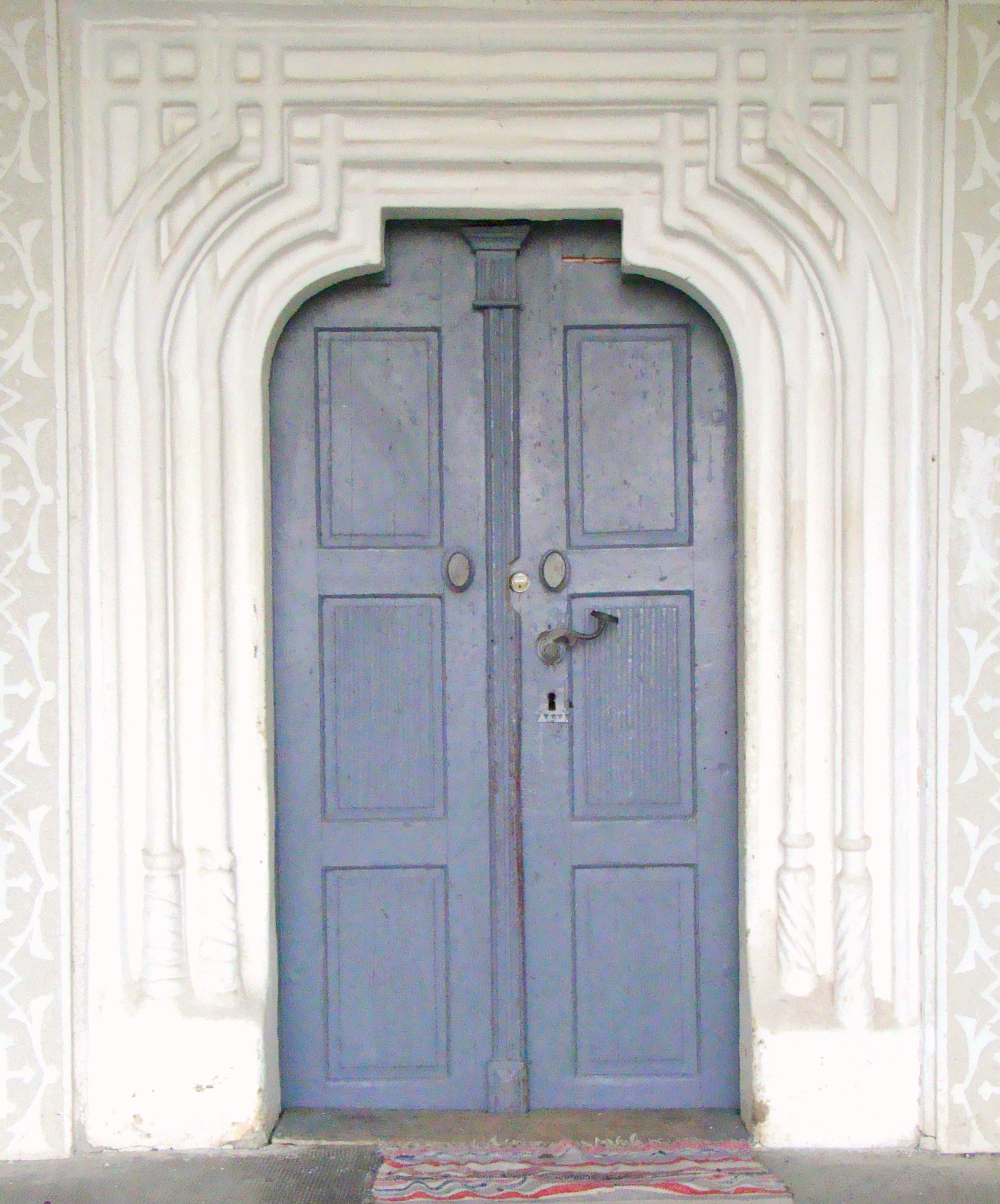 Lutheran church in Sângeorzu Nou, Bistriţa-Năsăud county, Romania